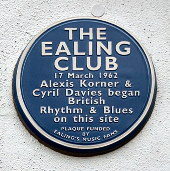 Blue Plaque unveiled 17 March 2012 to mark the site of the Ealing Club, Ealing , London. Founded by Alexis Korner & Cyril Davies, it is the birthplace of British blues-based rock music.